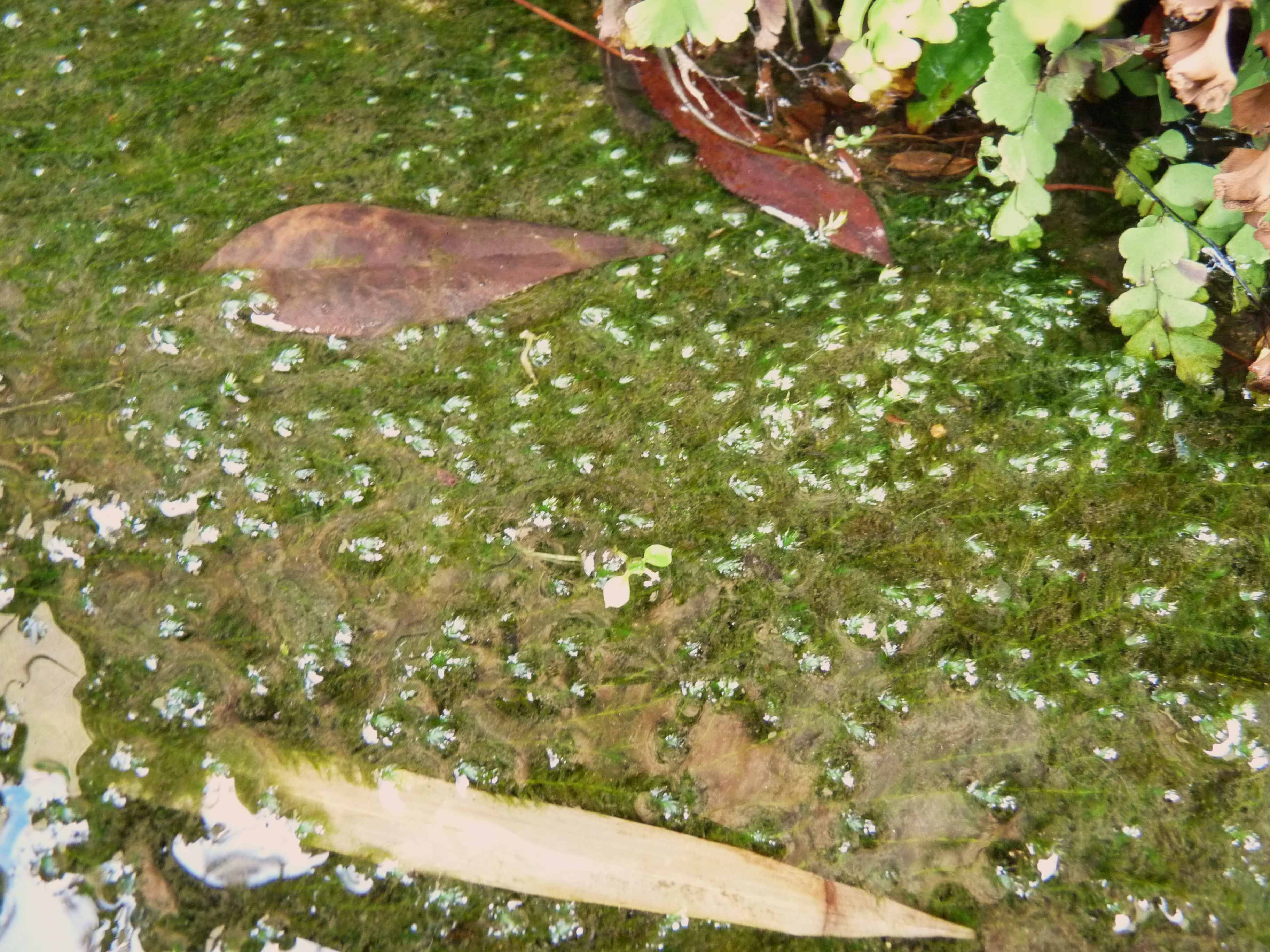 Leptodictium riparium (Amblystegium riparium)